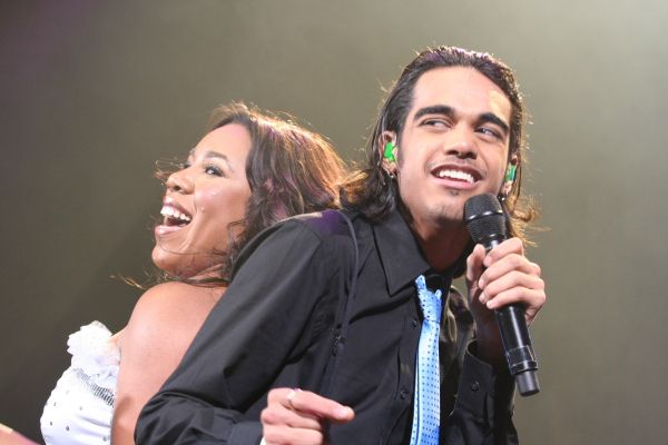 American Idol contestant Sanjaya Malakar performing live during the American Idols LIVE! Tour 2007.